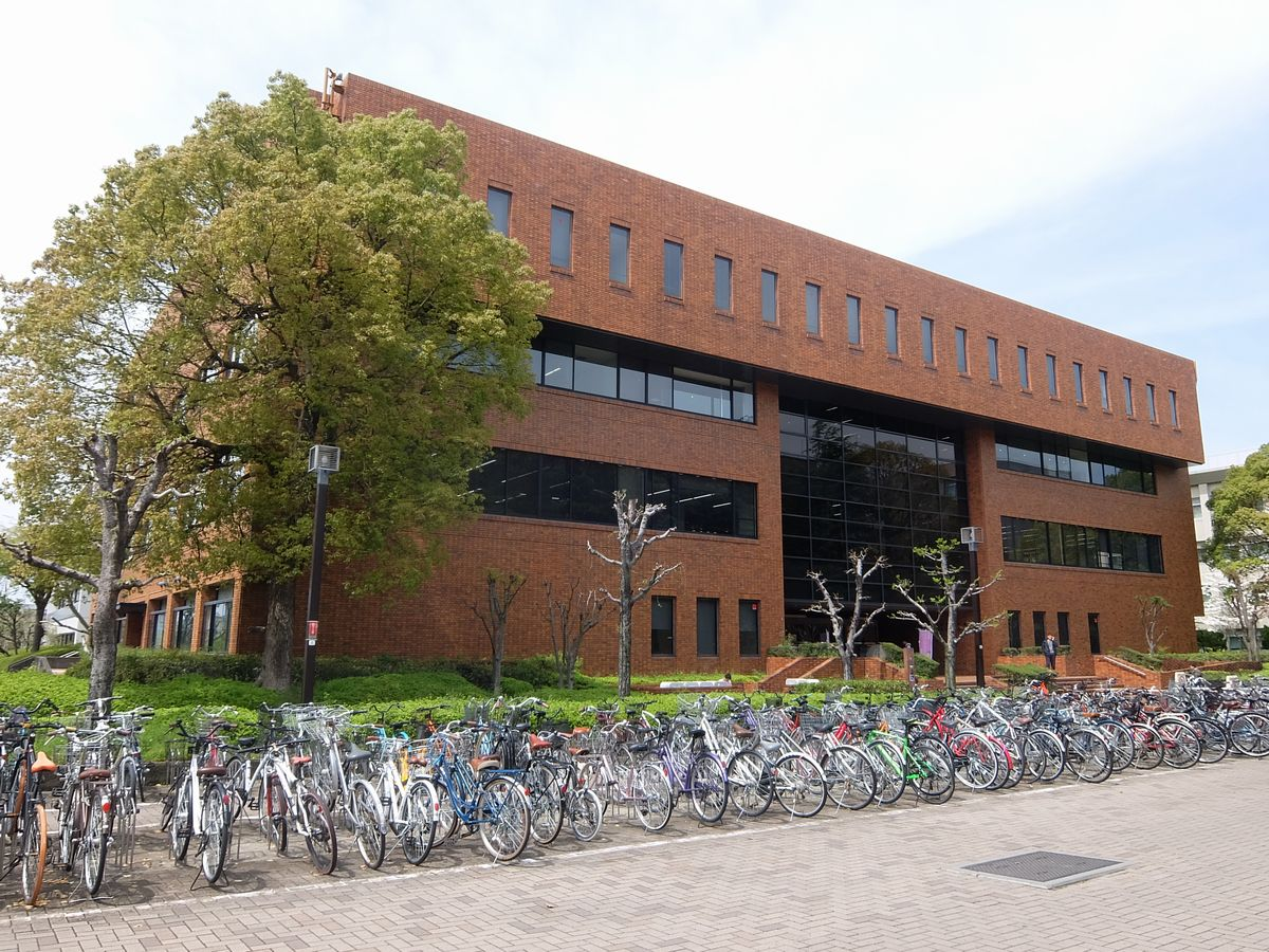 Kyoto University Library (Main Library)